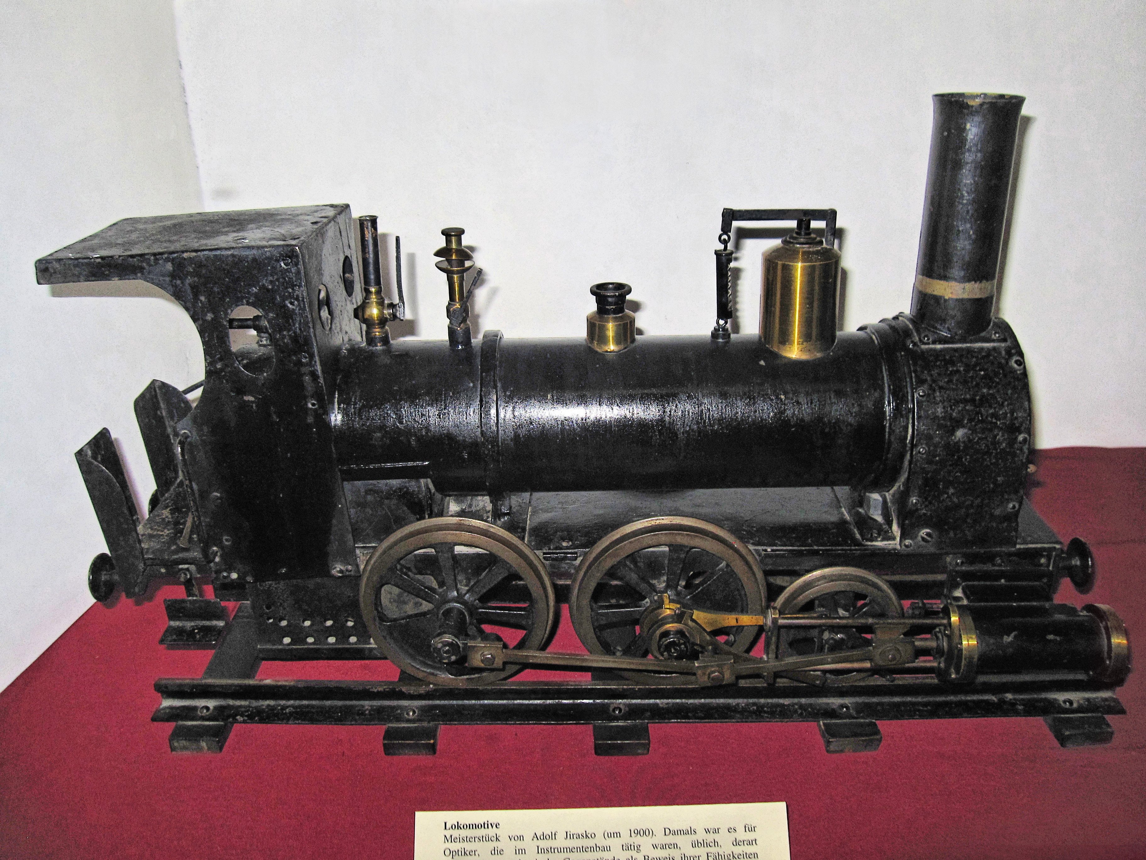 Miniature locomotive, the masterpiece by Adolf Jirasko (around 1900). Back then it was usual for opticians in training, who wanted to work in the construction of optical instruments, to produce such complex mechanical pieces as proof of their talent. Image taken at an exposition in the Wiener Neustadt civic archive.